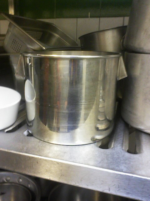 Catering container, stainless steel in a professional kitchen in France